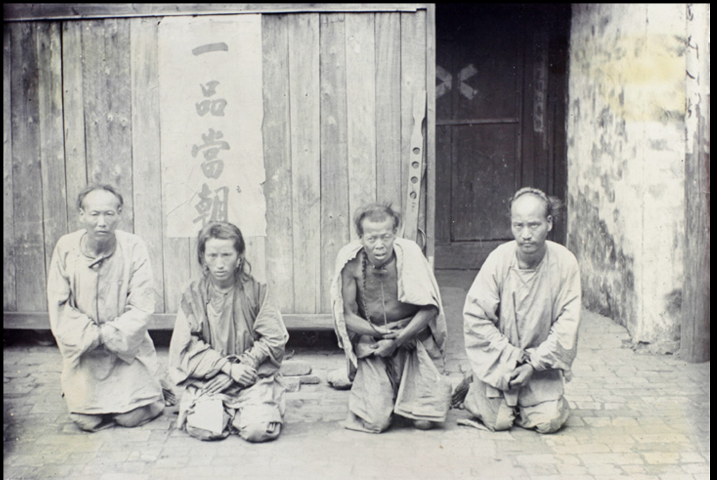 Four leaders of Kucheng Massacre